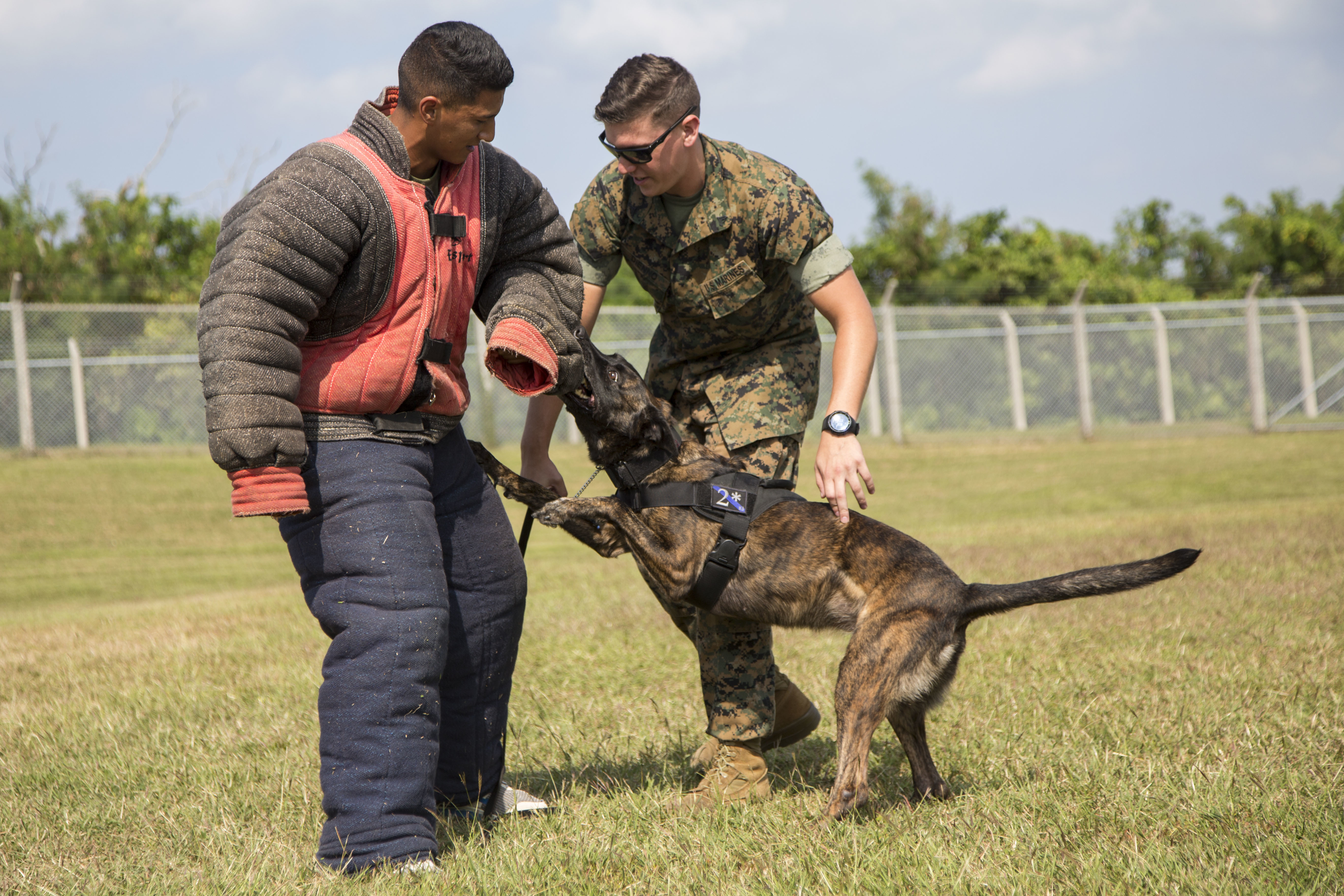 A U.S. Military Working Dog (MWD) bites a protective body suit during aggression training at Kadena Air Base, Okinawa, Japan, Nov. 4, 2016. U.S. Marine Corps dog handlers conduct aggression training in order to prepare the MWD’s for real life scenarios. (U.S. Marine Corps photo by Lance Cpl. Christian J. Robertson) Unit: III Marine Expeditionary Force Combat Camera